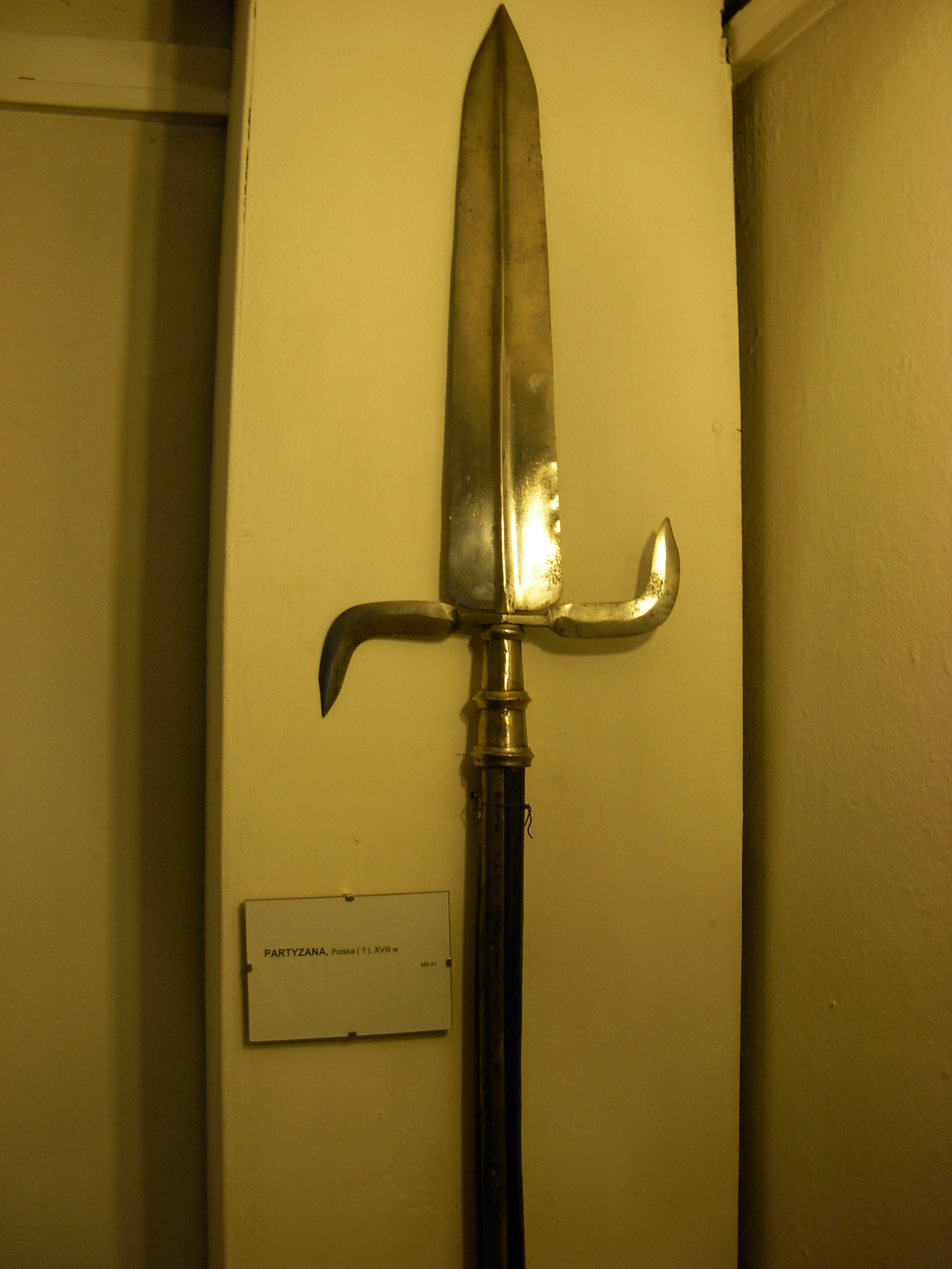 Items from Muzeum Zagłębia, in Castle in Będzin, Poland. "Partyzana" spear, 18th century, likely Polish.